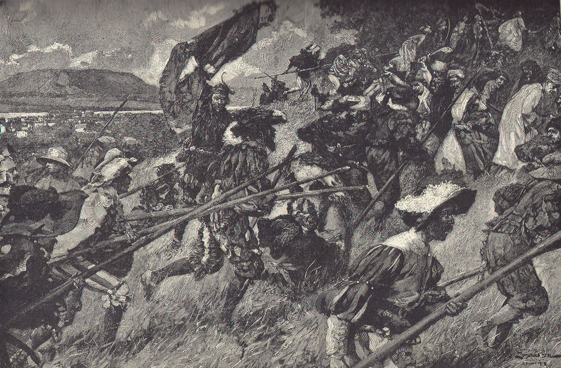 The charge of the Austrian army in the Battle of Saint Gotthard (1664)